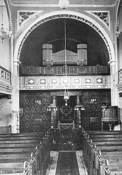 Synagogue in Heidelberg- built in 1878 - destroyed by the nazis in 1938 during the Kristal Nacht - inside - photo of 1913